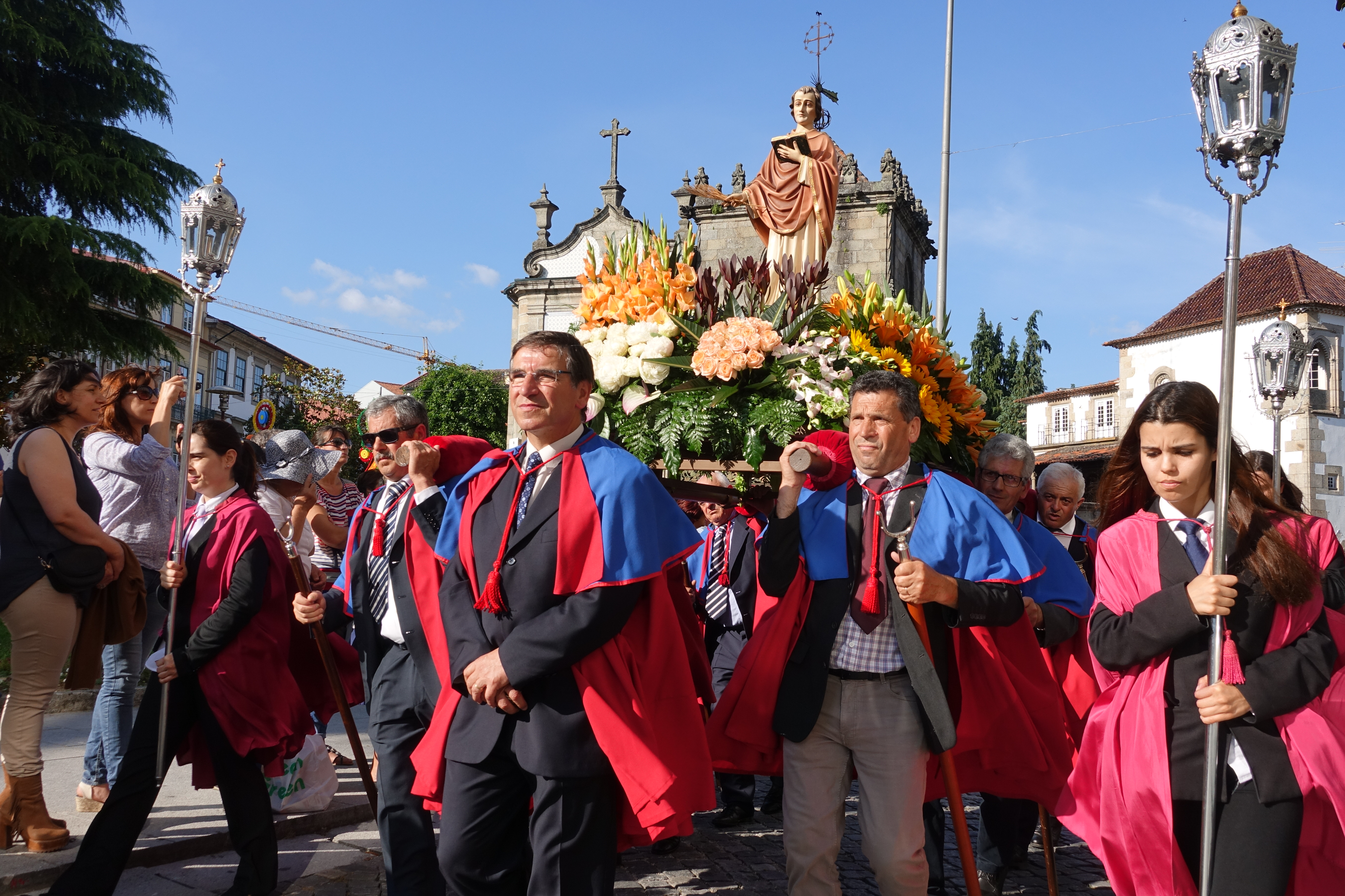 Saints of June Procession 2016, Braga, Portugal.